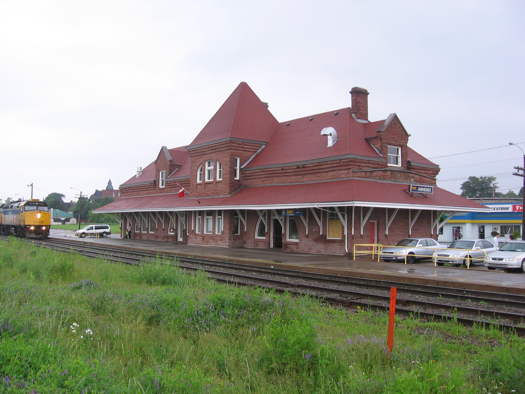 Photo of Amherst train station, Nova Scotia, Canada